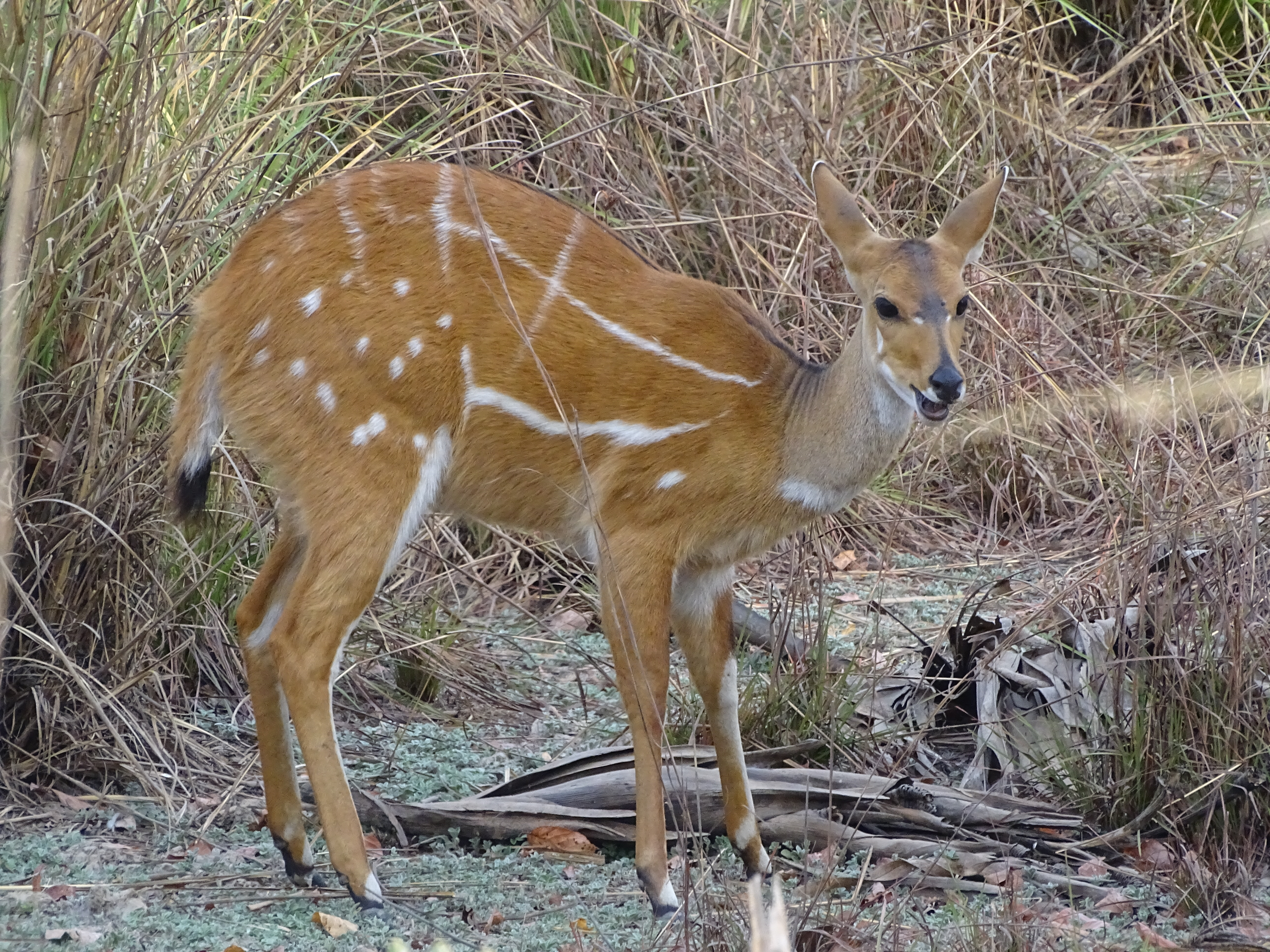 It lives in forests and shrub lands in central and southern Africa. It is closely related to kudu, sitatunga and bongo. It is a species that can generally adapt well to changing conditions. It is found in most of sub-Saharan Africa. The color of the fleece varies from light brown to dark brown through red brown. Females and young usually have a lighter fleece color, often red, males are often darker and become even more so as they age. On the body, mainly the back and the hindquarters, run white vertical lines (maximum seven) and white dotted lines. The head is often lighter in color. On the short snout a black line, while the cheek and the ears carry a white spot. The guib has a large tail in plume, white at the back and black at the beginning. A narrow band of long, light hairs usually runs on the back, from the shoulders to the tail. In the male, the belly is dark in color. Above the black hooves are white lines. Only males wear horns. Long from 25 to 57 cm, they are almost straight, with only one curvature (sometimes two). From the head to the beginning of the tail it measures from 105 to 150 cm, for a height at the withers from 61 to 100 cm and a body weight between 24 and 80 kg (according to sex and subspecies). Males are larger than females. Males weigh between 30 and 80 kg, females between 24 and 60 kg. The bushbuck is a moderately fast runner, able to reach 50 km / h in race speed with peaks at 70 km / h. It is a good jumper that can jump up to 2 m high. He is alert, has a good hearing, a good sense of smell but a rather mediocre view. It is a fairly aggressive antelope that can defend itself, bark and / or flatten on the ground when it has felt a danger. In the Pendjari National Park is one of the species that lives in the rivers. this picture was taken at the fogou pond.